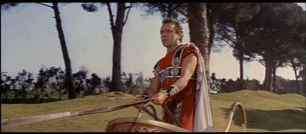 Screenshot of Richard Burton from the trailer for the film Cleopatra.